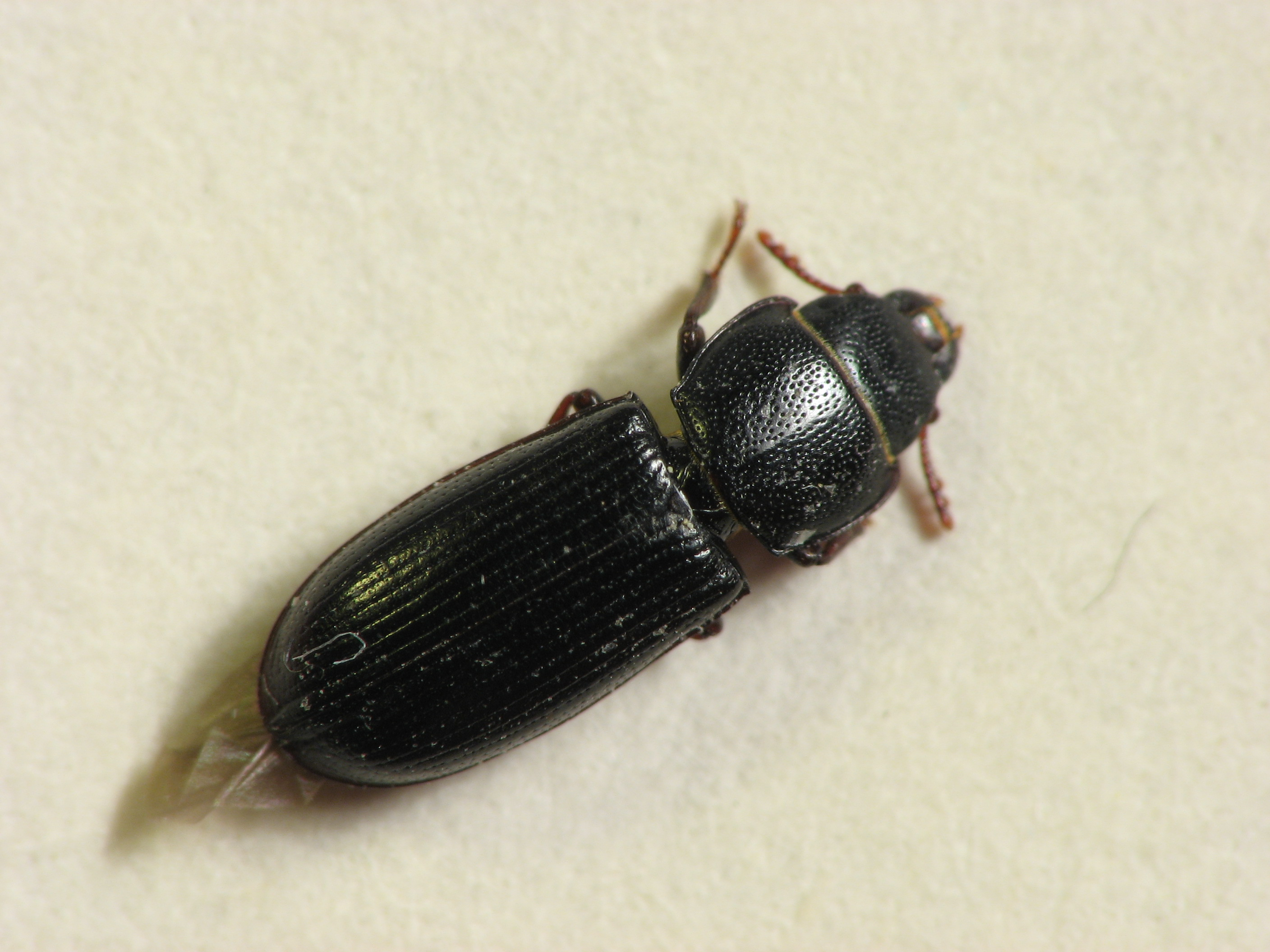 Bark-gnawing beetle, Tenebroides corticalis. Size: 7 mm. Willow Grove, Montgomery County, Pennsylvania, USA.